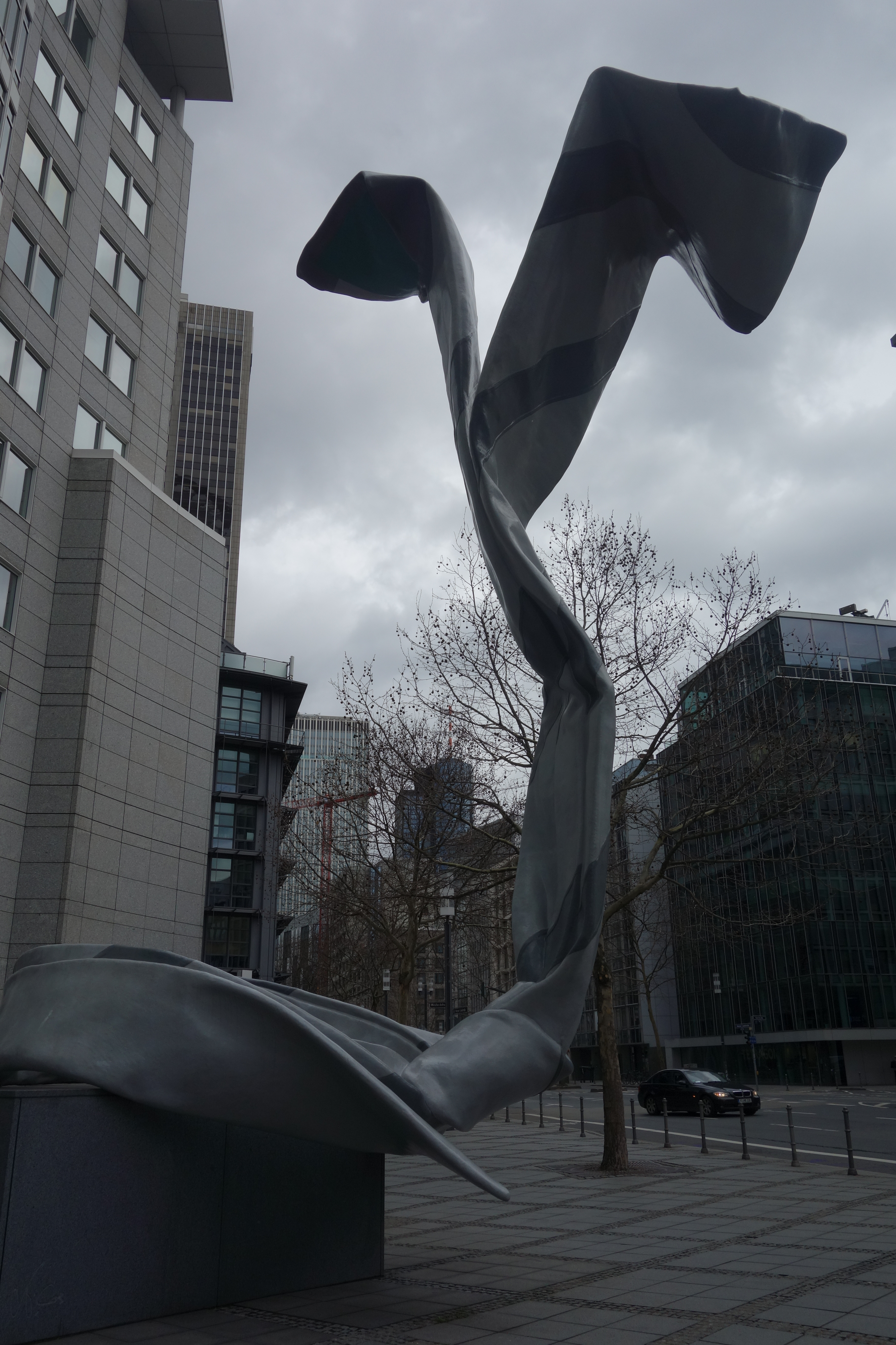 Sculpture Inverted Collar and Tie by Claes Oldenburg and Coosje van Bruggen. Westendstrasse 1, Frankfurt